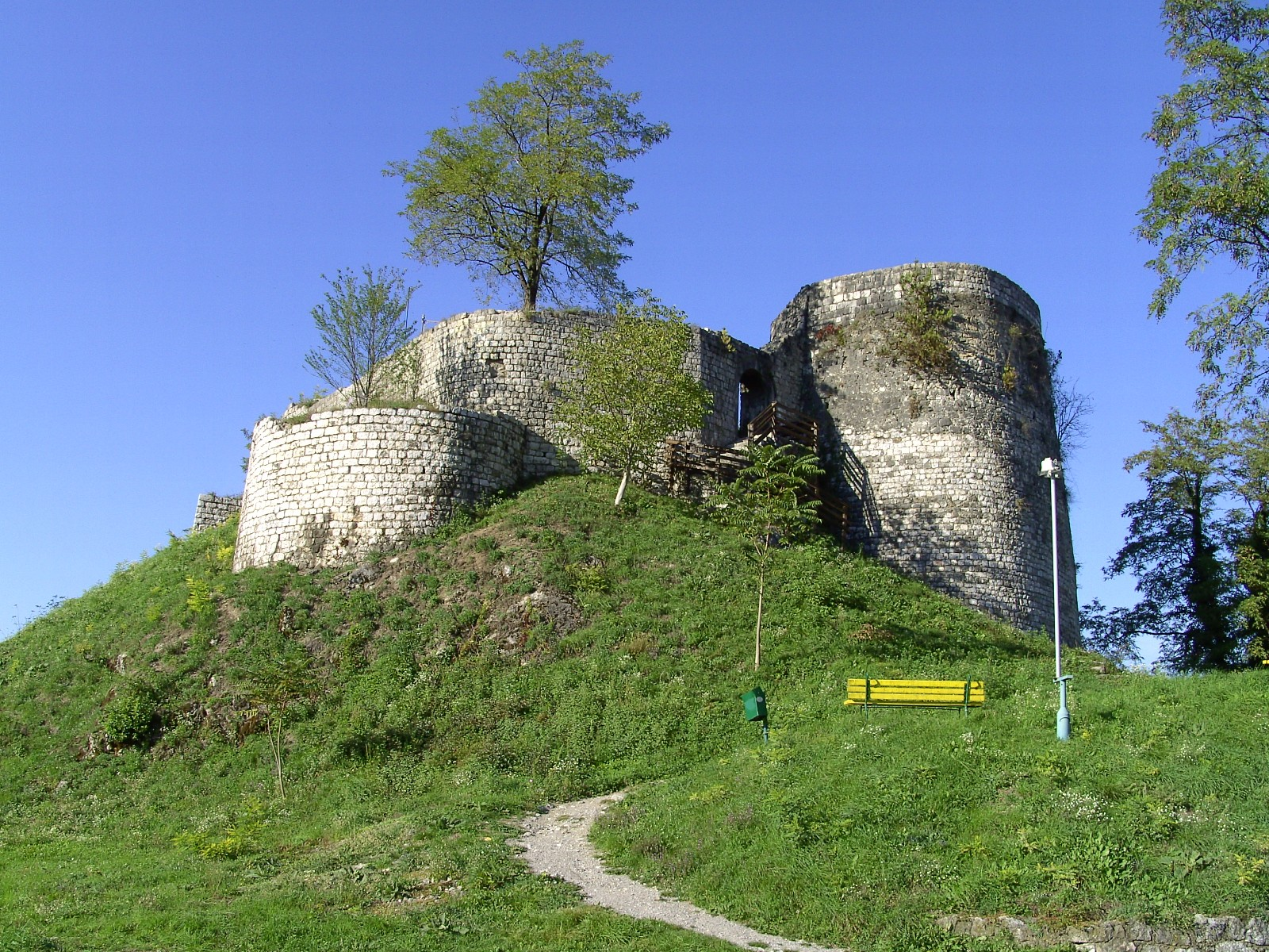 A fortress in Bosanska Krupa, BiH